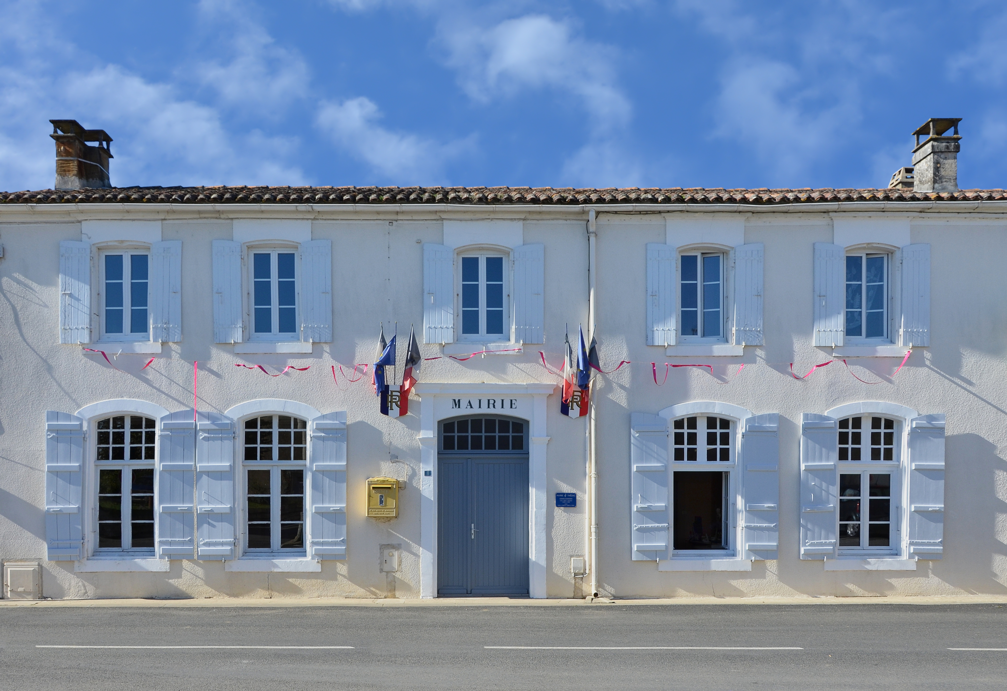 Facade of the town hall of Thézac, Charente-Maritime, France.